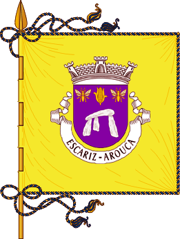 Flag of Escariz parish, Arouca municipality (Portugal)